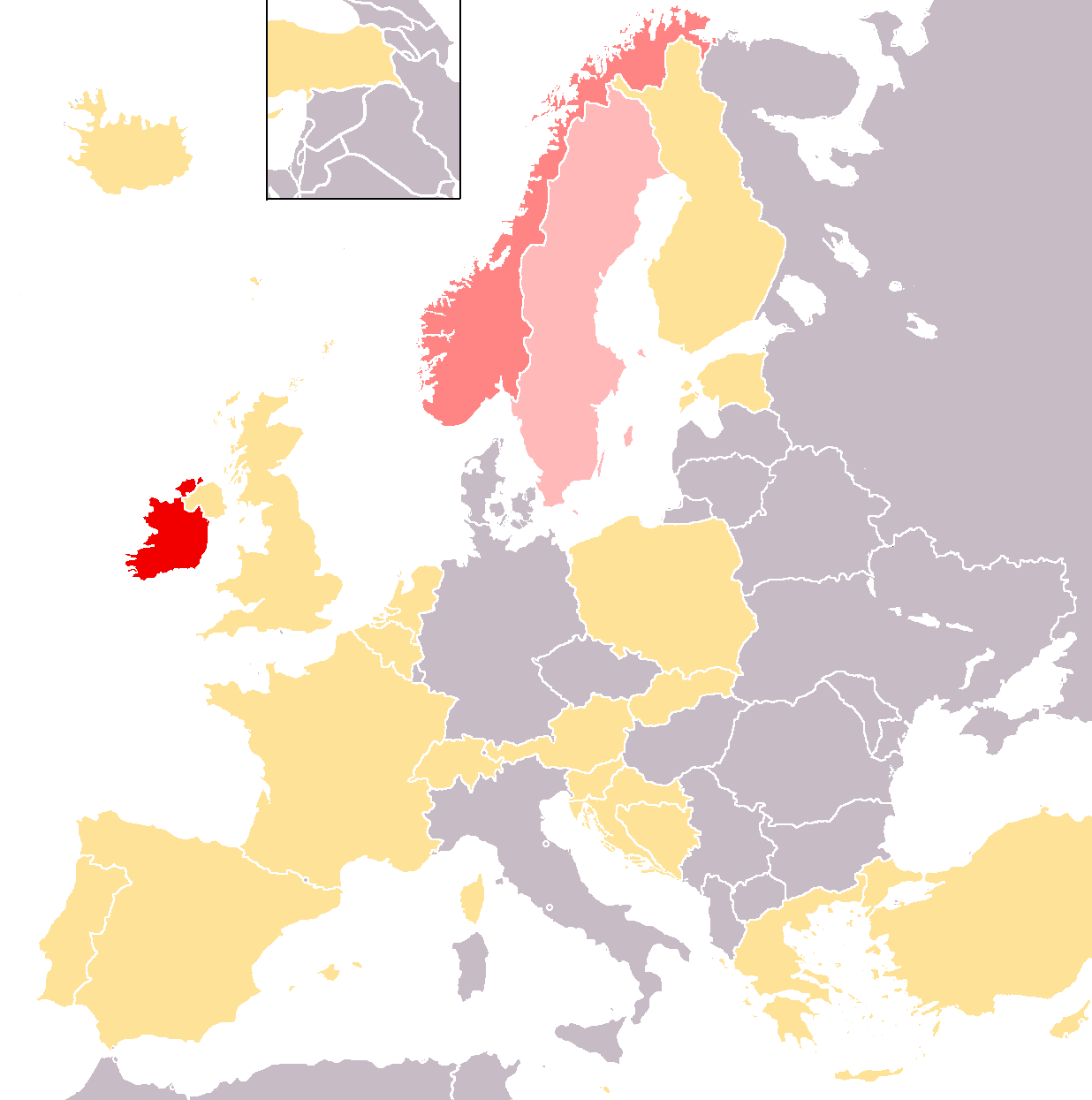 Map of Eurovision 1996